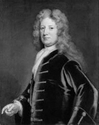 Thomas Wharton, 1st Marquess of Wharton (1648-1715)